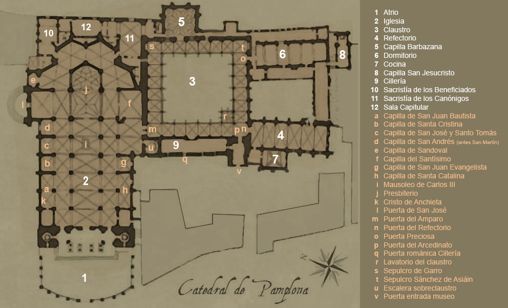 Cathedral of Pamplona. Floor